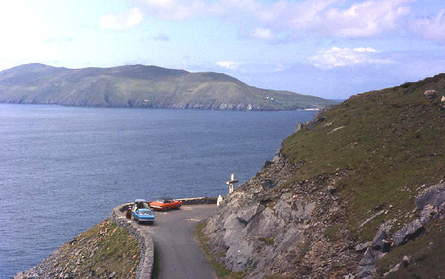 Slea Head and Great Blasket, Blasket Islands, County Kerry, Ireland